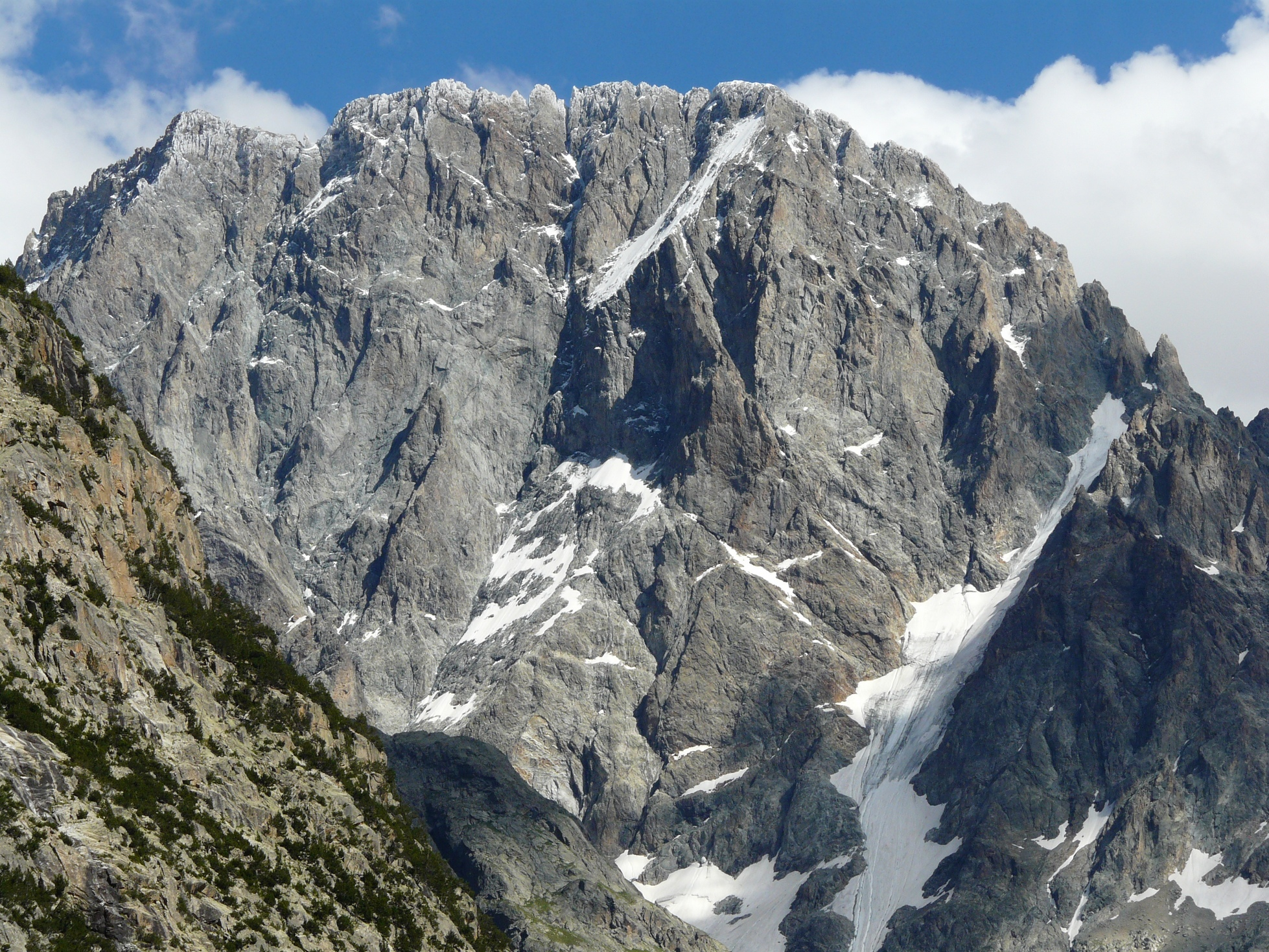 Ailefroide - Northwest face